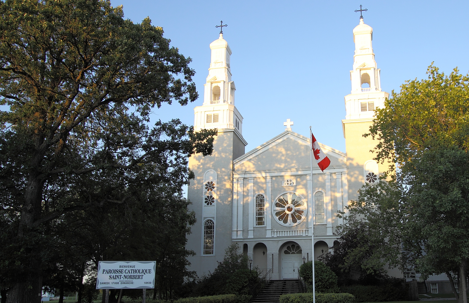 St. Norbert Catholic Parish.